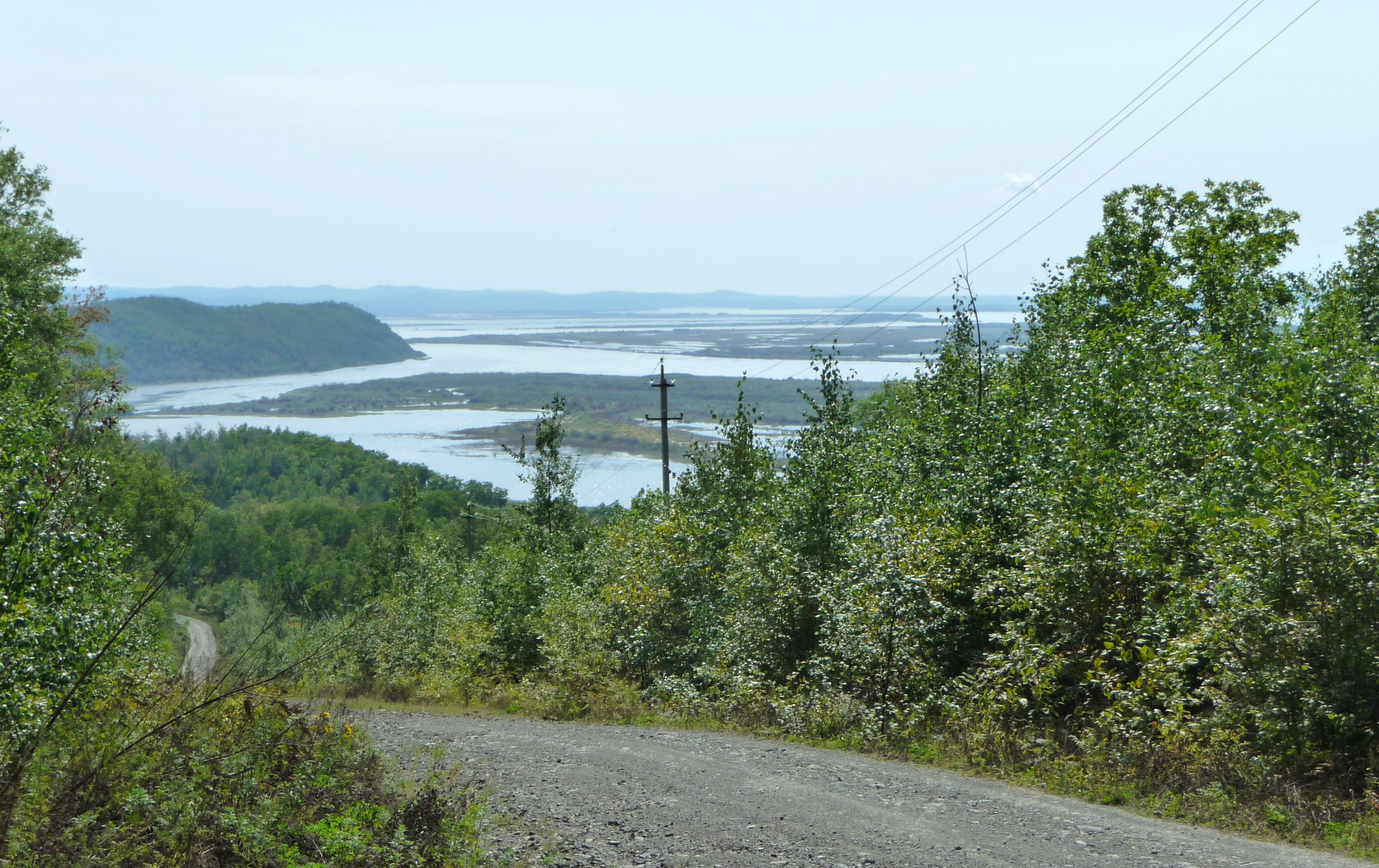 The Amur River near the Verkhnaya Ekon settlement (Khabarovsk Krai, Russia).